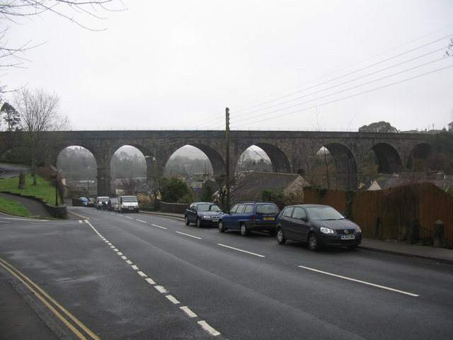 The viaduct at Tavistock. A view looking south towards the viaduct which once carried the London and South Western Railway, now only a footpath.